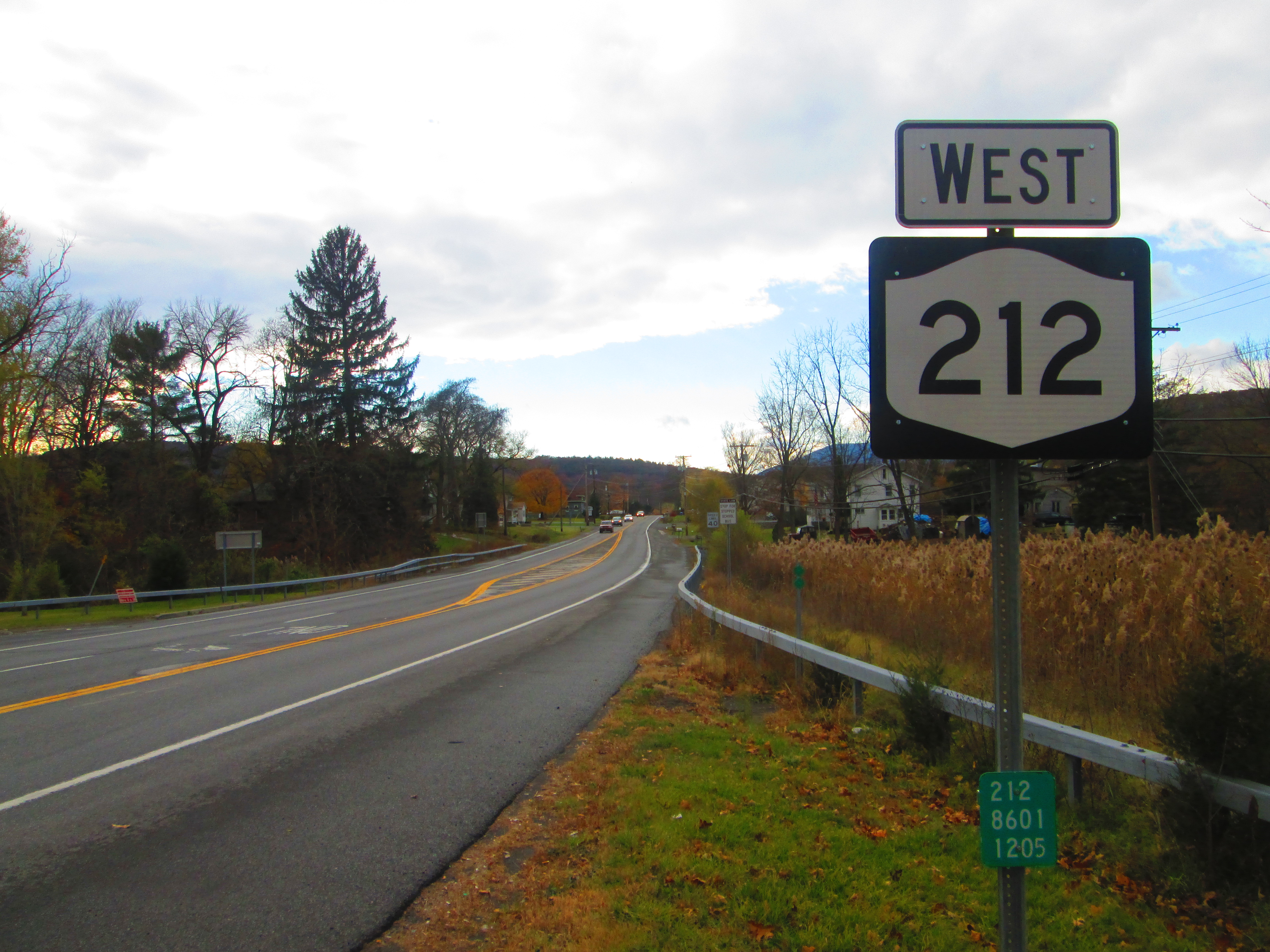 New York State Route 212 westbound just after the intersection with NY 32 in the town of Saugerties, New York.